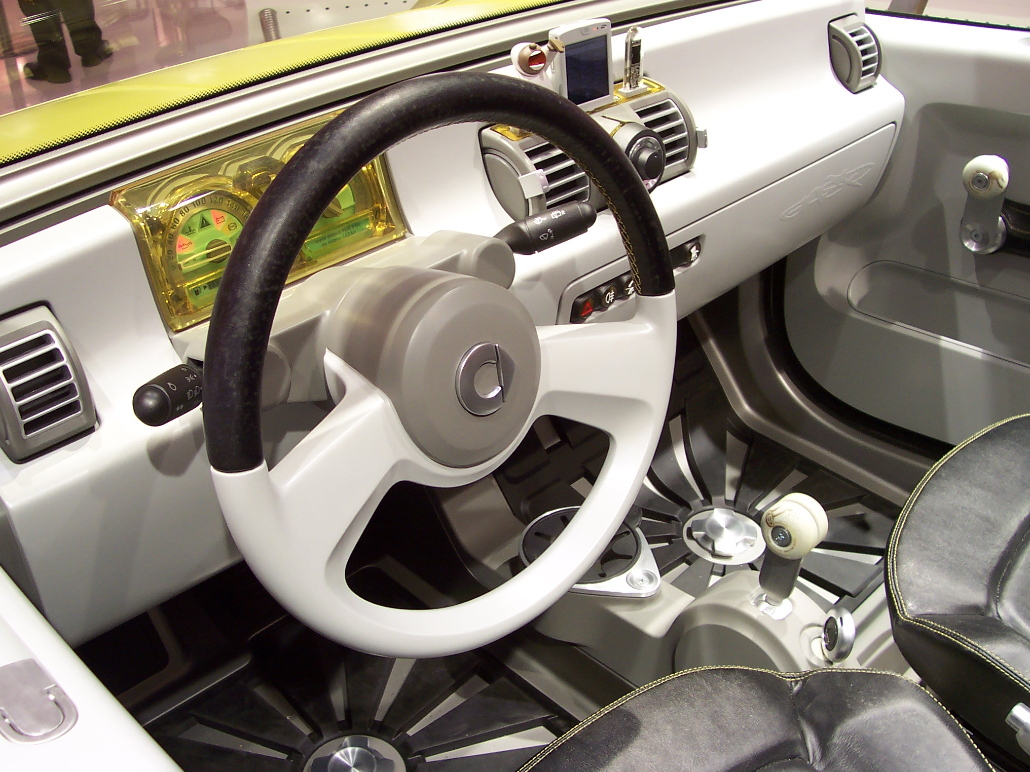 Smart (automobile) - crosstown hybrid (Concept vehicles) Hier: Innenraum mit Lenkrad